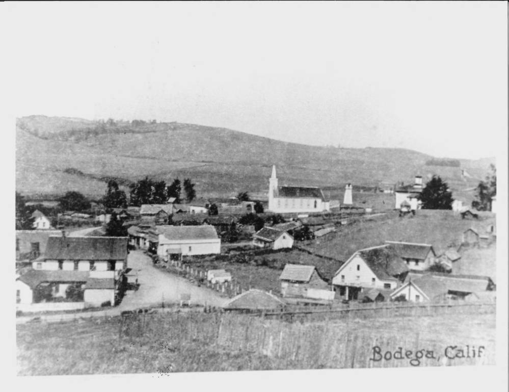 View of the town of Bodega looking north in the early 1900s. St. Teresa Catholic Church--built in 1860 in Bodega on Jasper O'Farrell's property is seen in middle of photo with steeple. The Potter School, to the right of the church, behind the large tree was built in 1873.